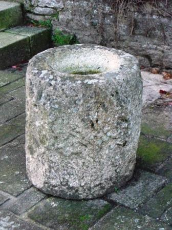 Lizio's ossarium